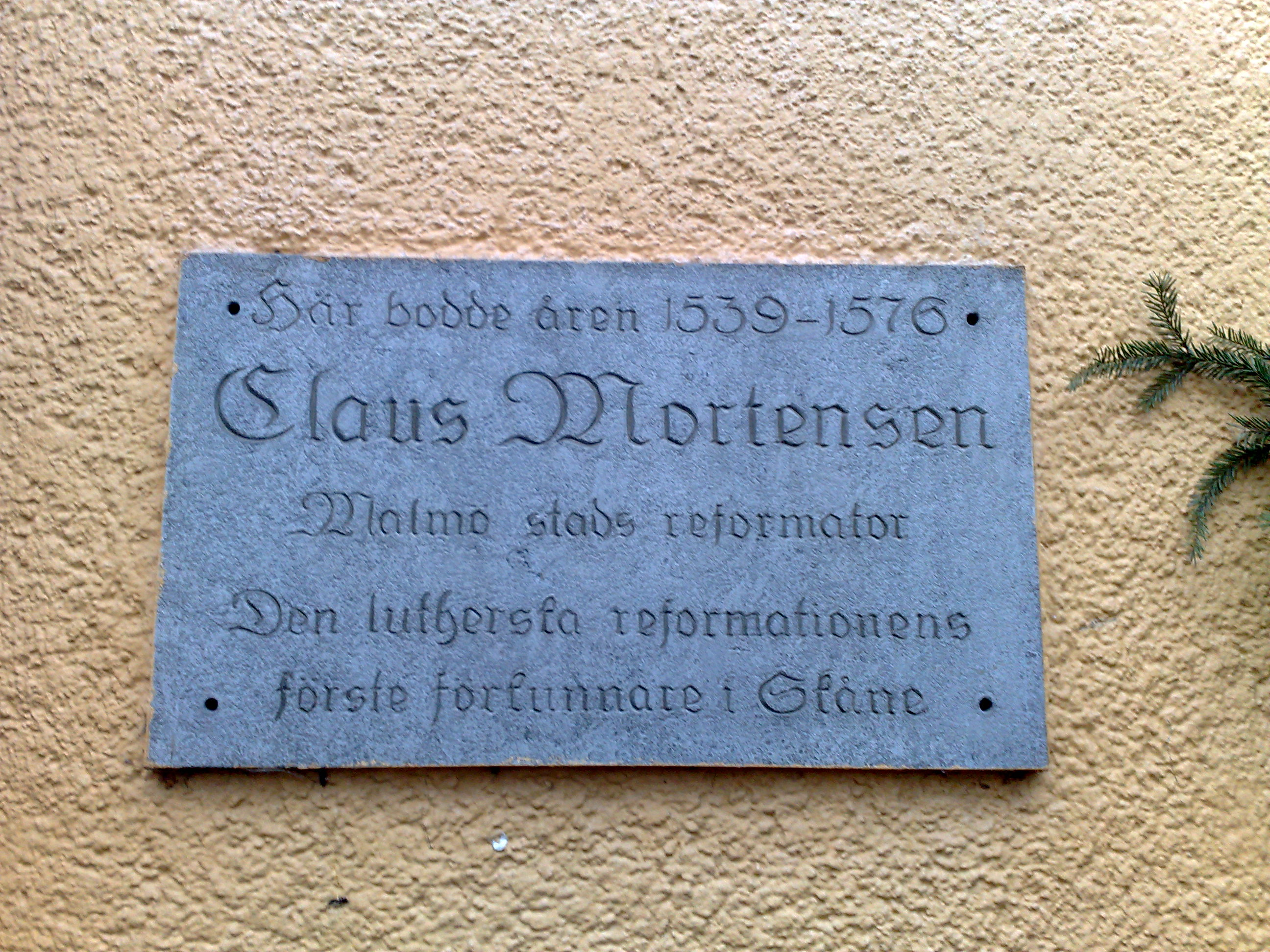 Plaque on the house of the reformer Claus Mortensen in Malmö, Sweden. “ Här bodde åren 1539-1576 Claus Mortensen Malmö stads reformator den lutherska reformationens förste förkunnare i Skåne ”